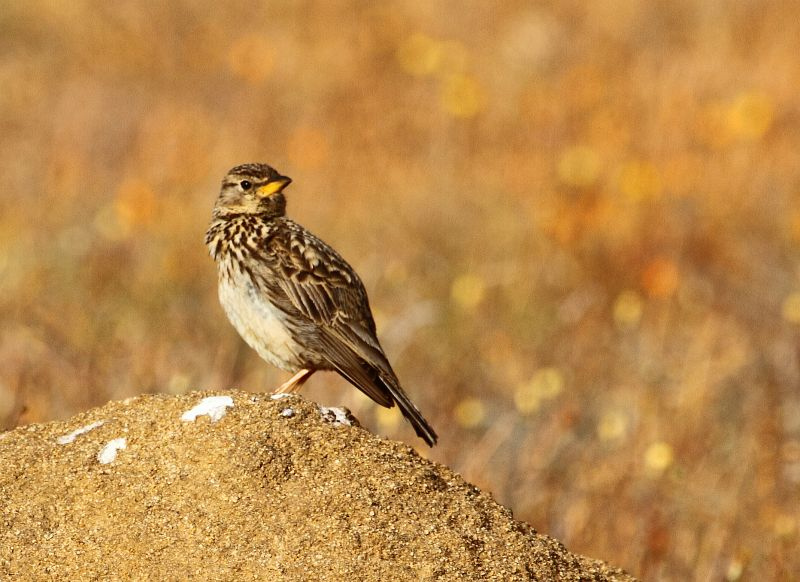 A Large-billed lark at Namaqua National Park, Northern Cape, South Africa.